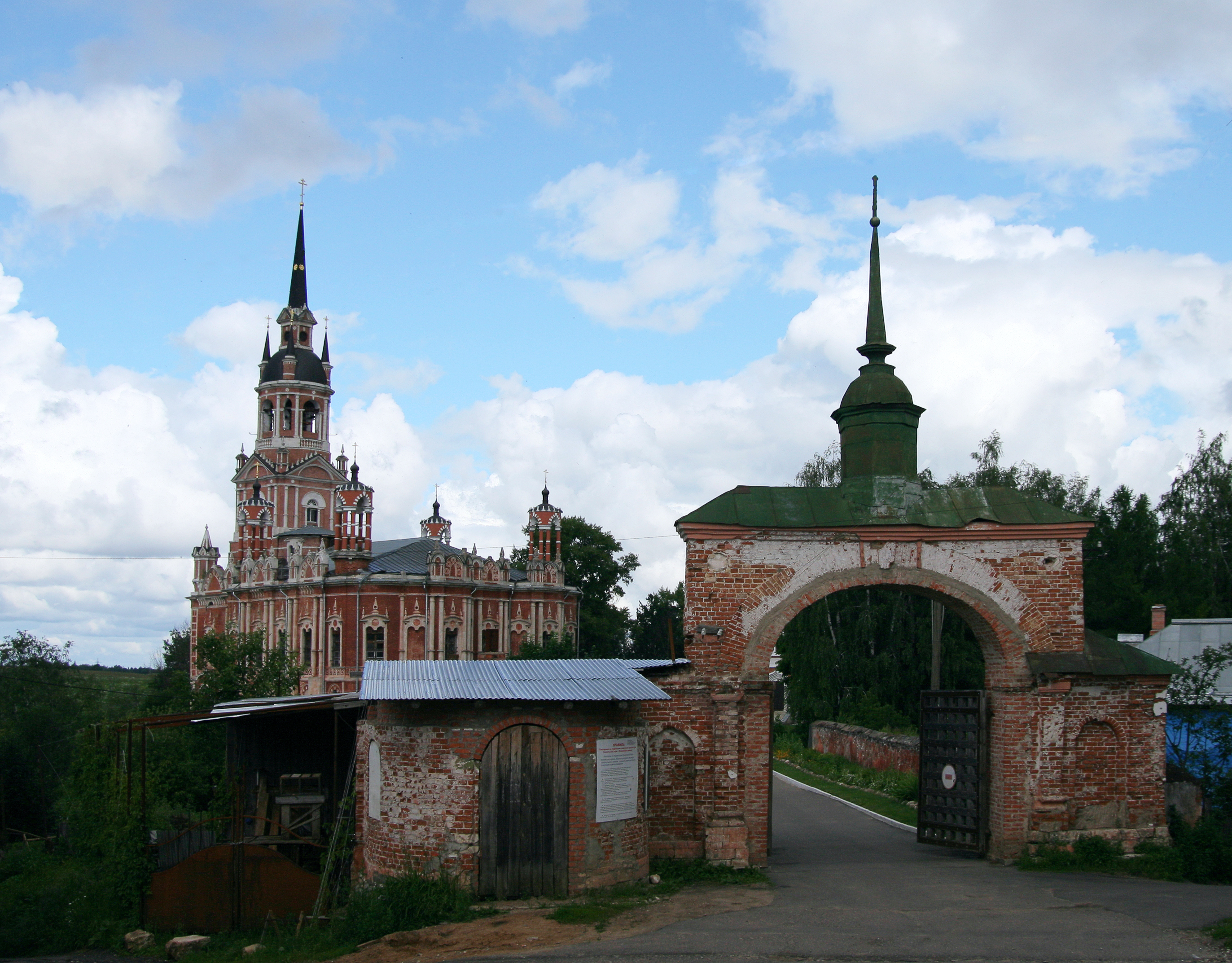 Entrance to Mozhaysk Kremlin, Mozhaysk, Russia